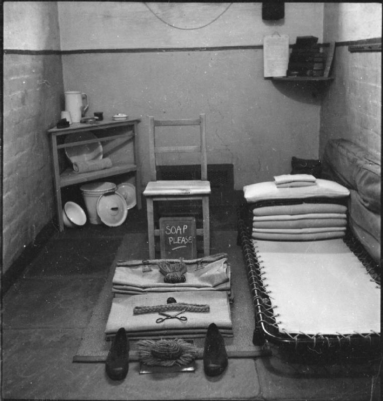 Wakefield Training Prison and Camp- Everyday Life in a British Prison, Wakefield, Yorkshire, England, 1944 A view of an inmate's room at Wakefield Prison. Clearly visible are the bed, a chair, several small shelves, and slop bucket. The rest of the inmate's belongings, such as a pair of shoes and a comb, have been set out neatly, ready for inspection. Chalked on a small blackboard are the words 'soap please'.